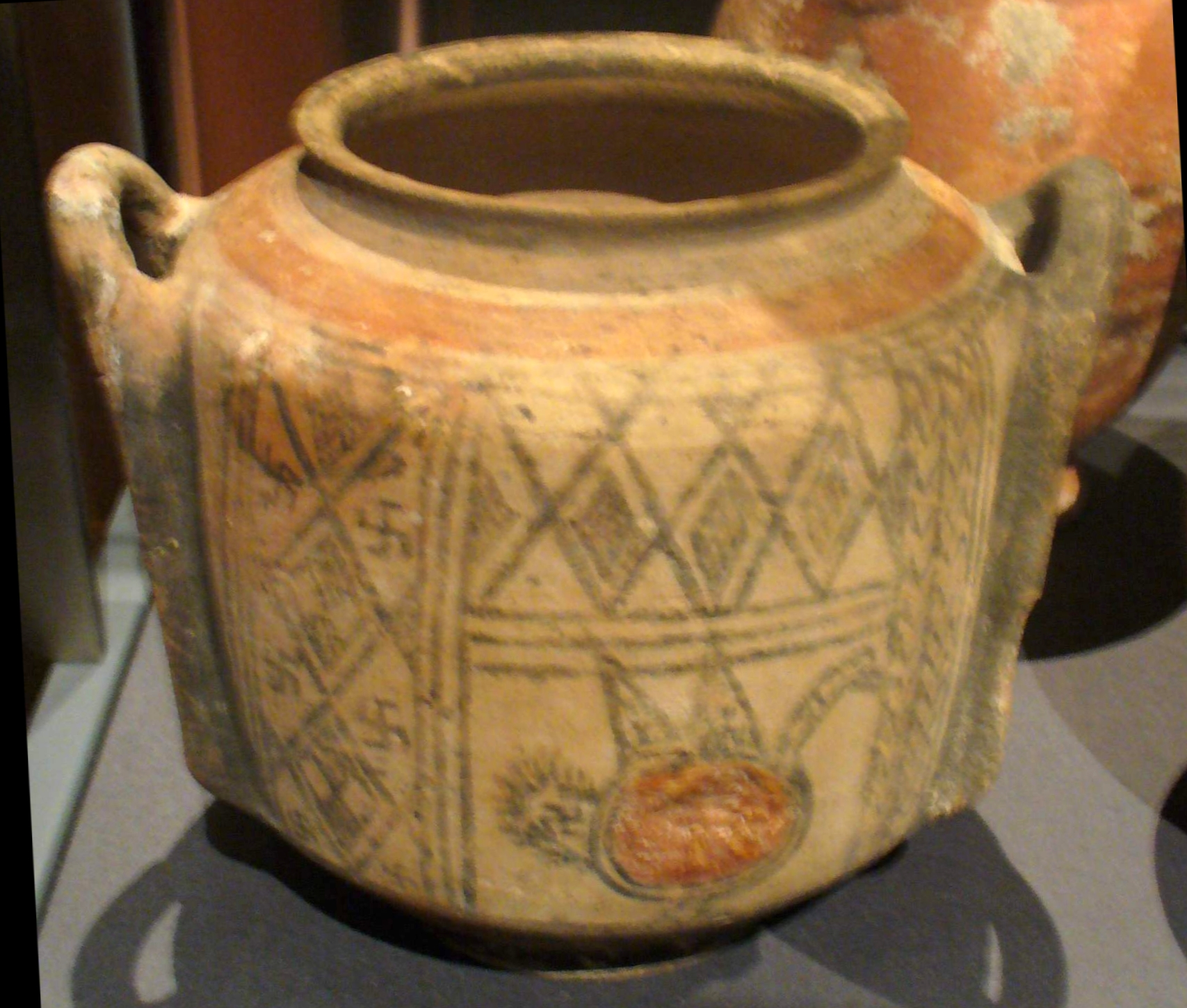 Cypriotic Bichrome ware; Kunsthistorisches Museum at Vienna